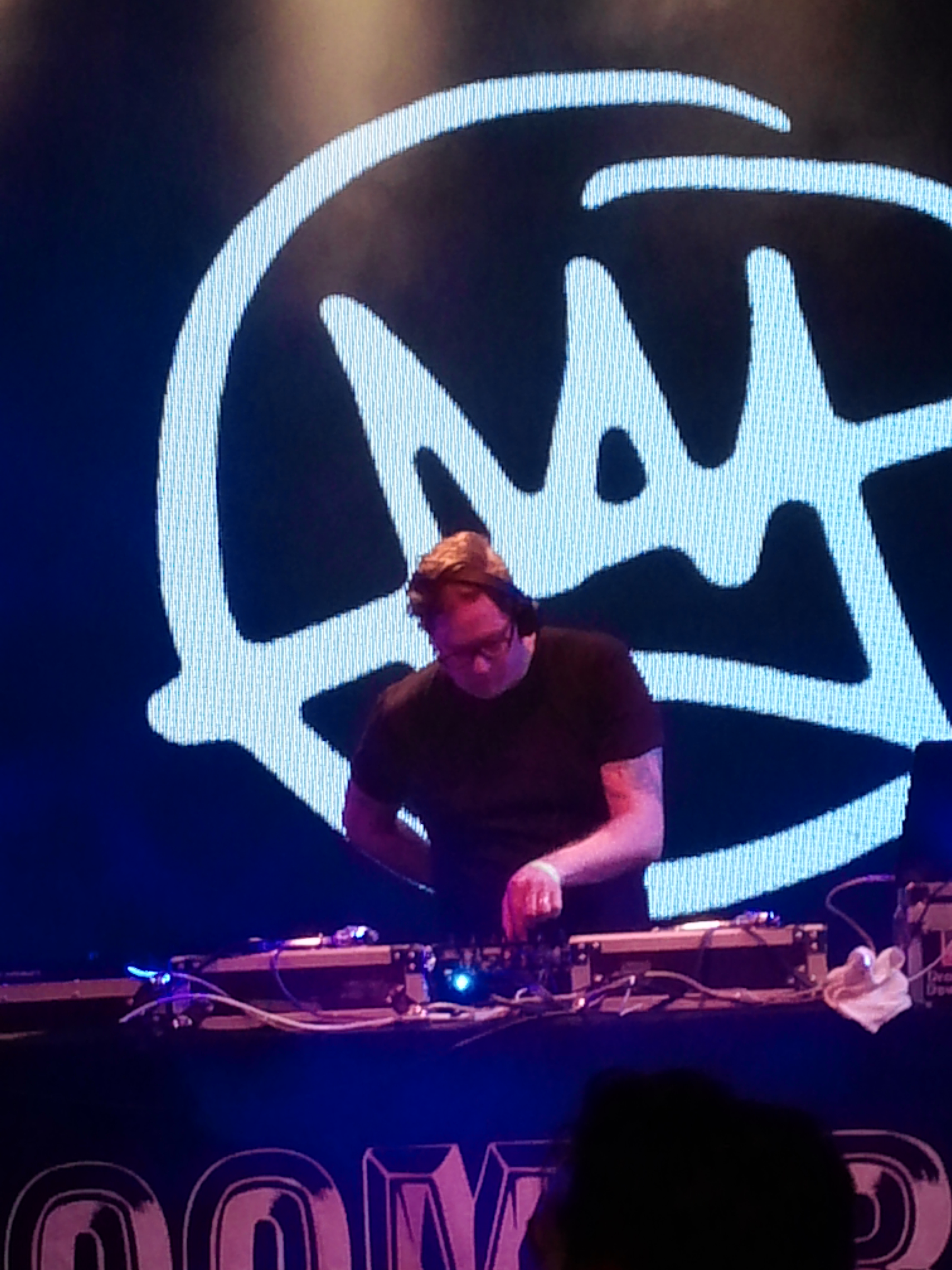 American hip hop producer Paper Tiger performing as part of a Doomtree show at the Highline Ballroom.